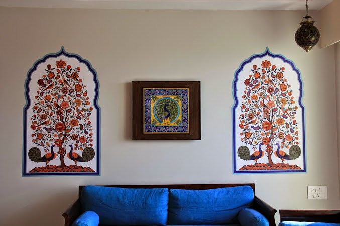 This image depicts a wall mural with traditional Indian Rajasthani motif design.